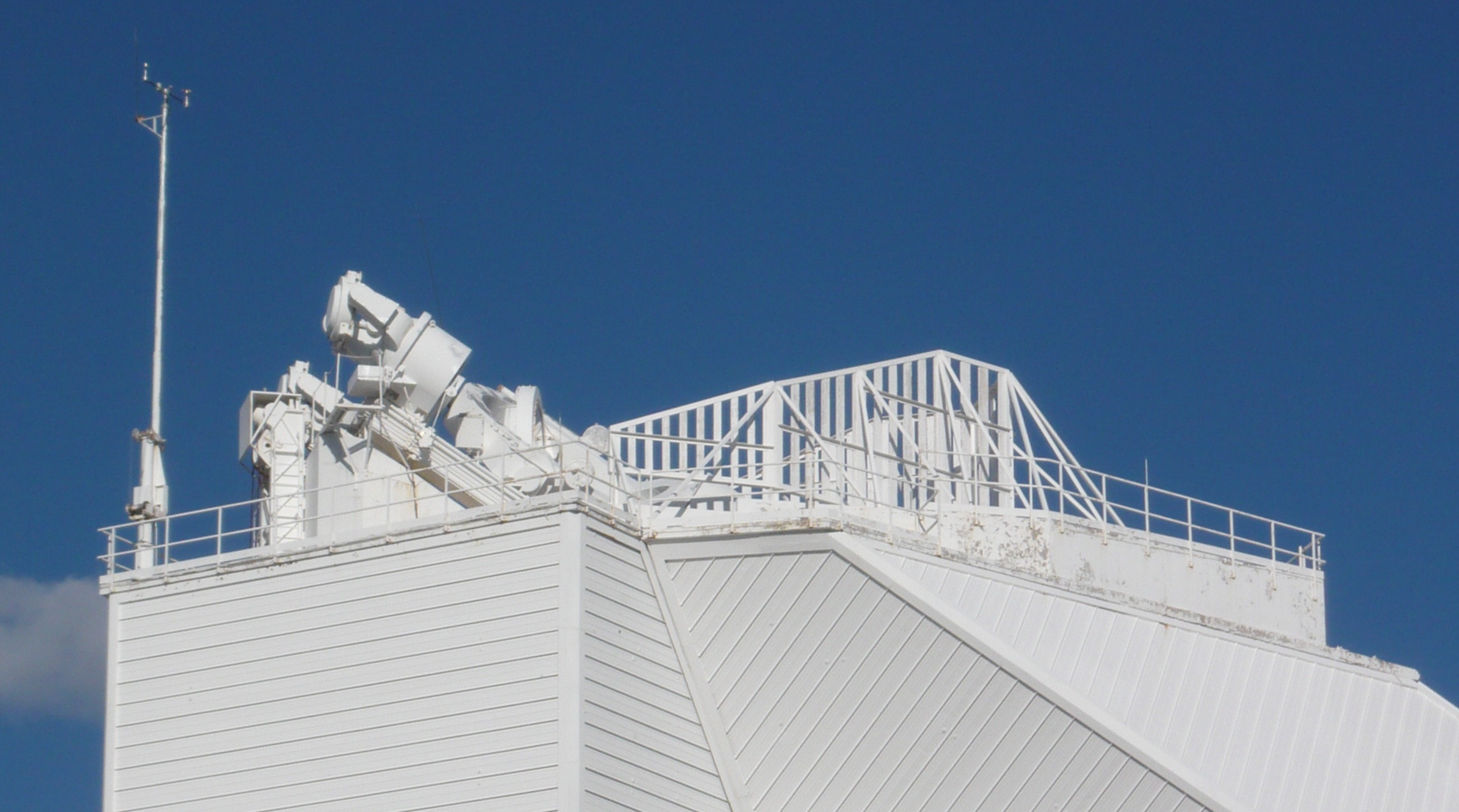 The top of the McMath-Pierce Solar Telescope, with the main heliostat visible and an auxiliary heliostat in front of that.